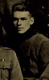 Ice hockey player John "Crutchy" Morrison of the 1915–16 Winnipeg 61st Battalion.